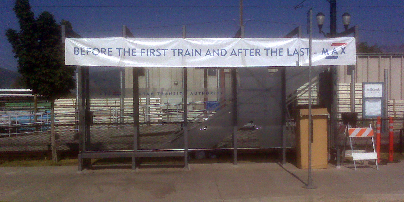 New MAX bus rapid transit shelter at the Millcreek TRAX station. Banner reads "Before the first train and after the last - MAX."